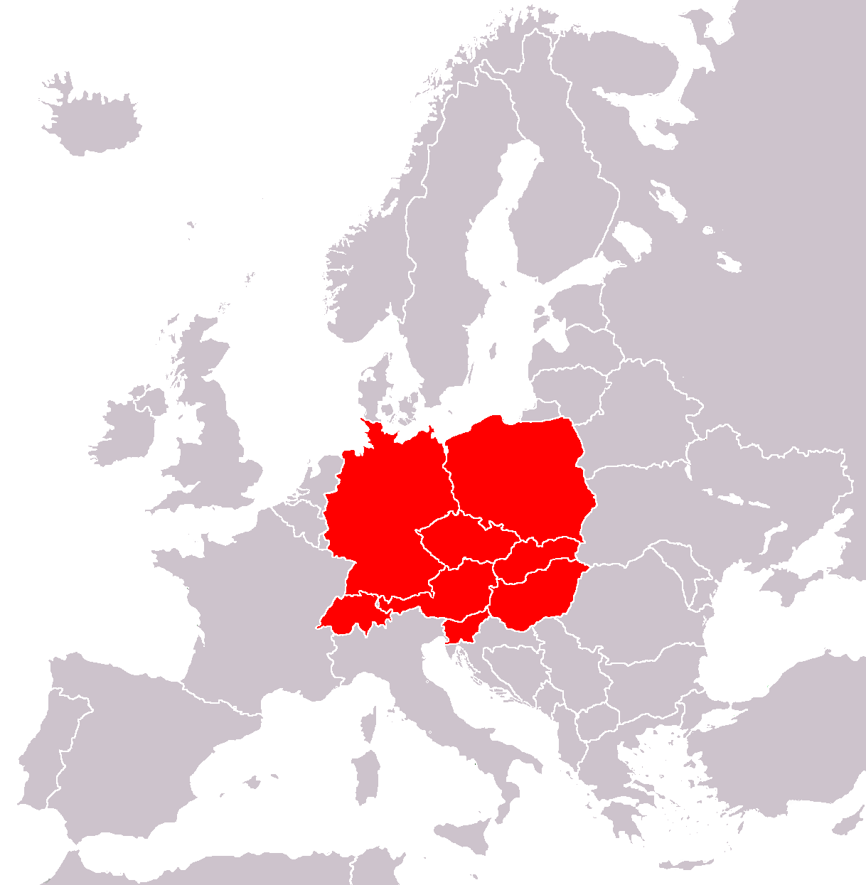 Central Europe according to the definition from Brockhaus Enzyklopädie, 20. Auflage, Band 14. 1998